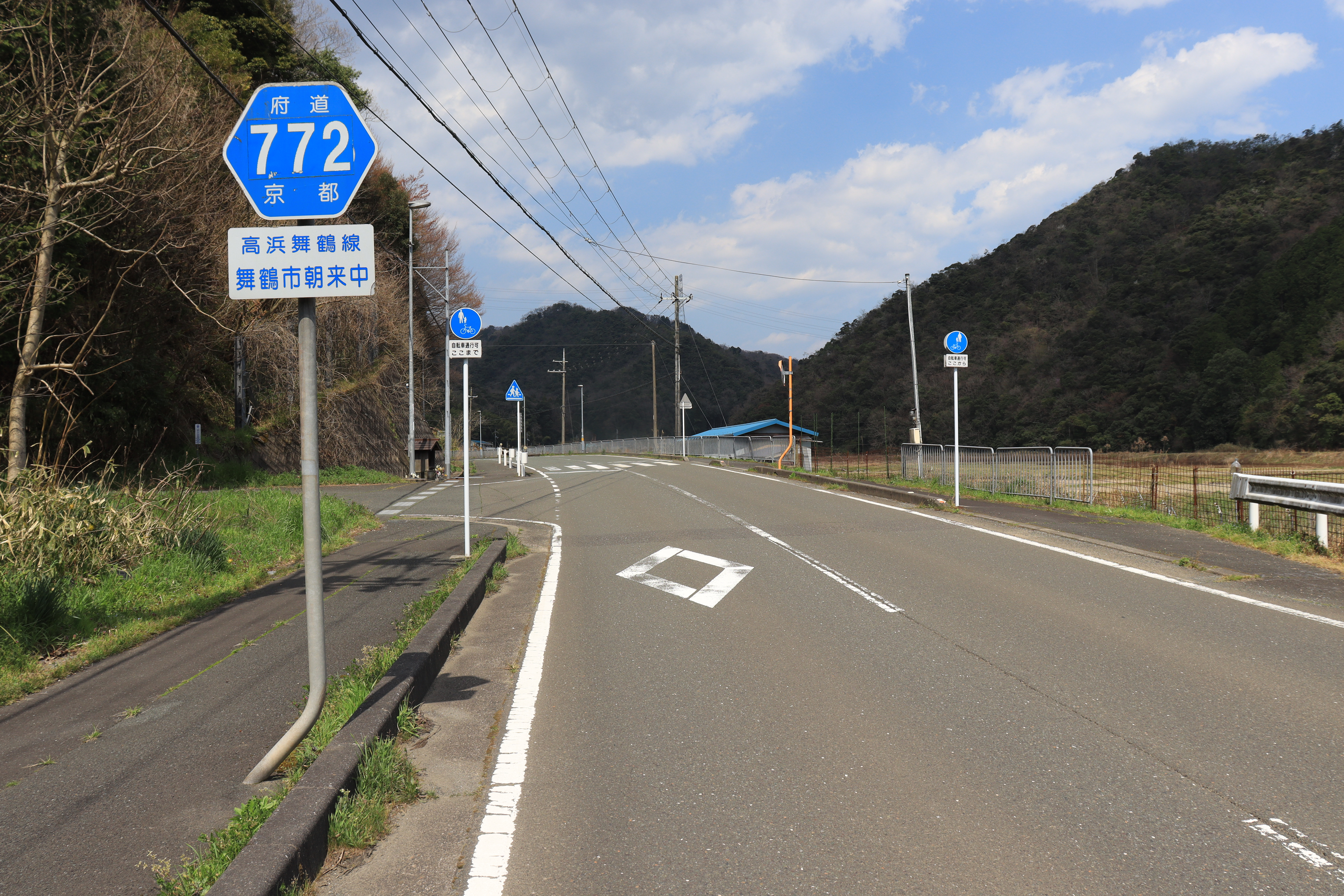 Kyoto Prefectural Road Route 772 in Asekunaka, Maizuru, Kyoto Prefecture, Japan.